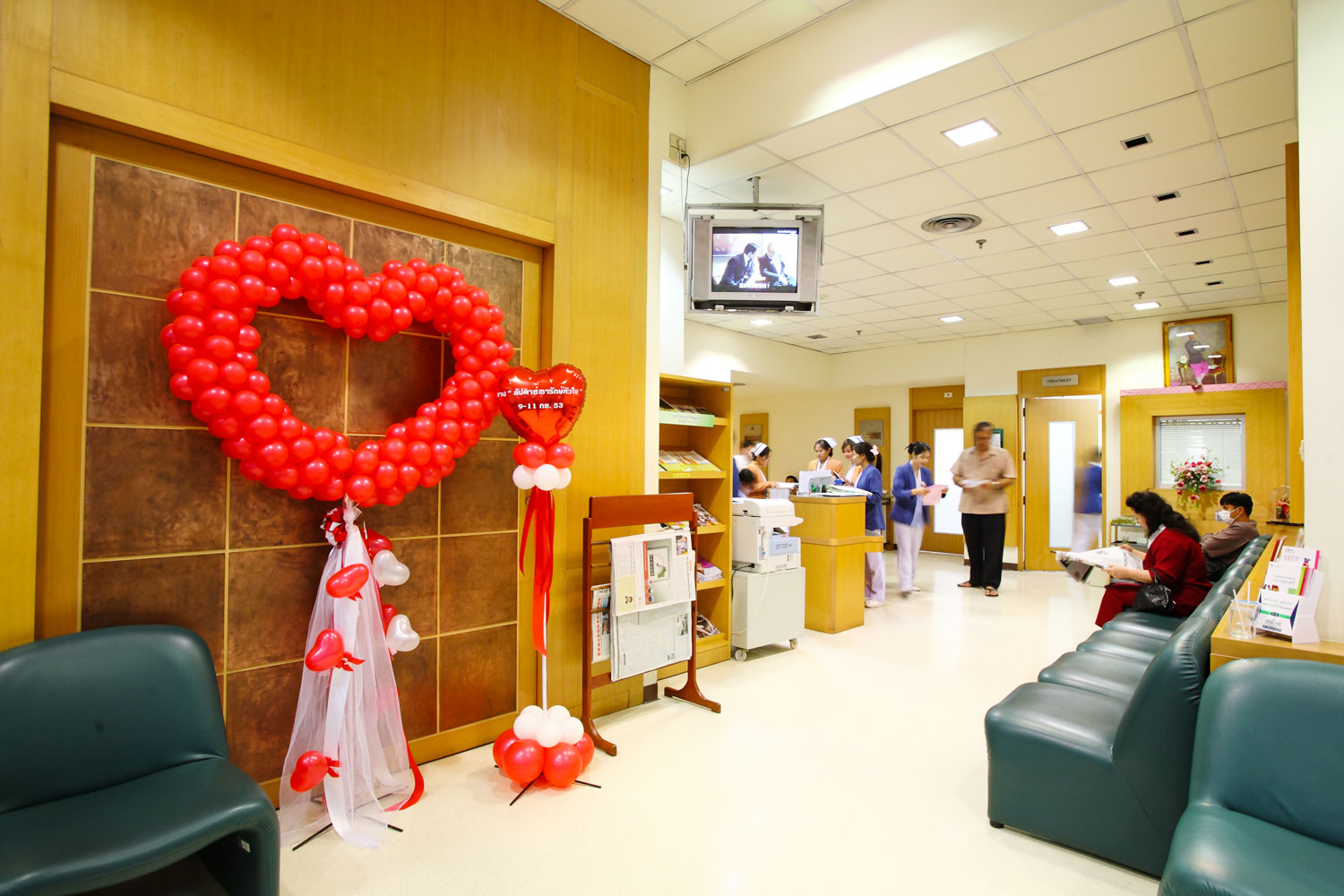 Cardiovascular Institute Praram 9 Hospital